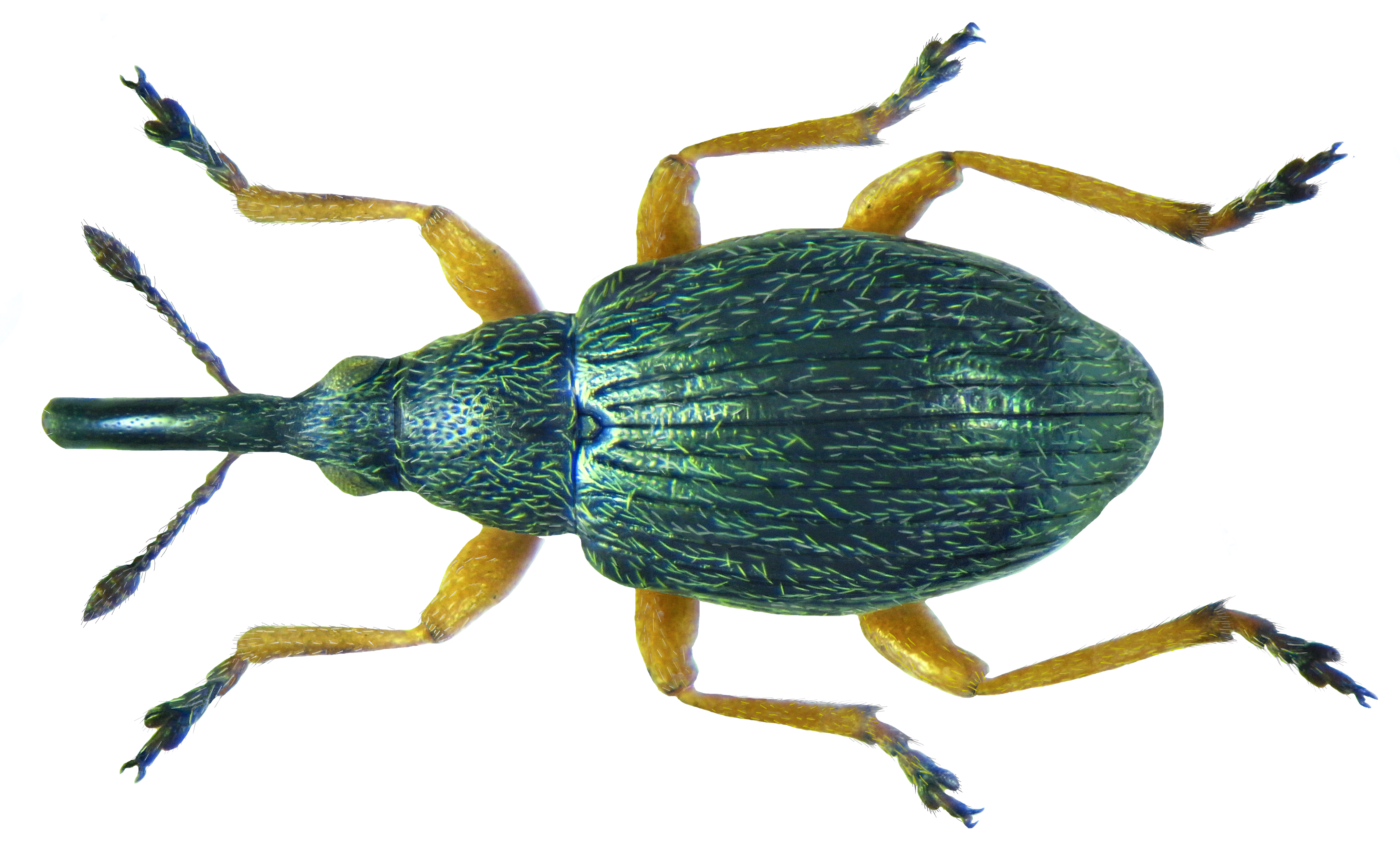 Family: Apionidae Size: 2,7 mm (2,1-2,8 mm) Origin: Front and Central Asia, Europe (excluding the North), North Africa Ecology: lives on Malva neglecta and sylvestris Location: Britain, Newburgh leg.det. P.Harwood, 10.IX.1905; Coll. Oxford University Museum of Natural History Photo: U.Schmidt, 2013